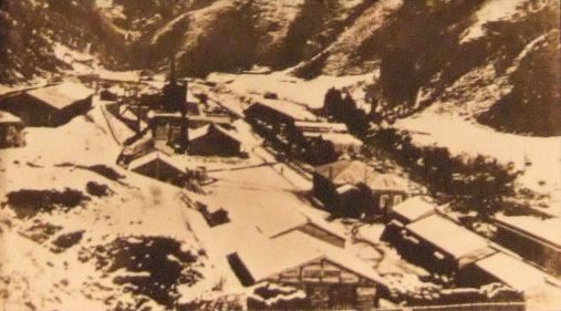 Tanaka_iron_works,_Kamaishi_mine